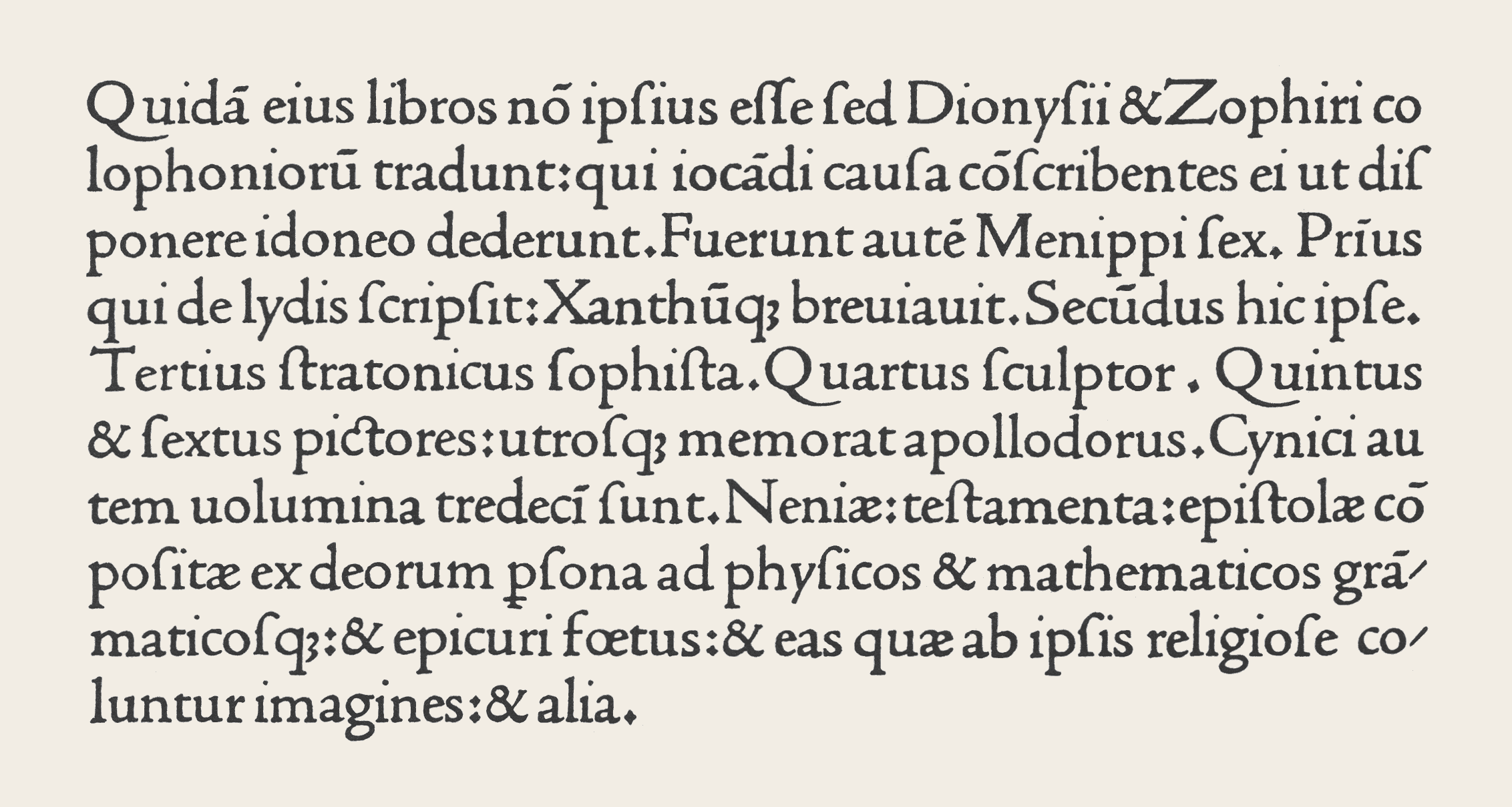 Sample of roman typeface by Nicolas Jenson, from an edition of "Laertius", printed in Venice 1475.